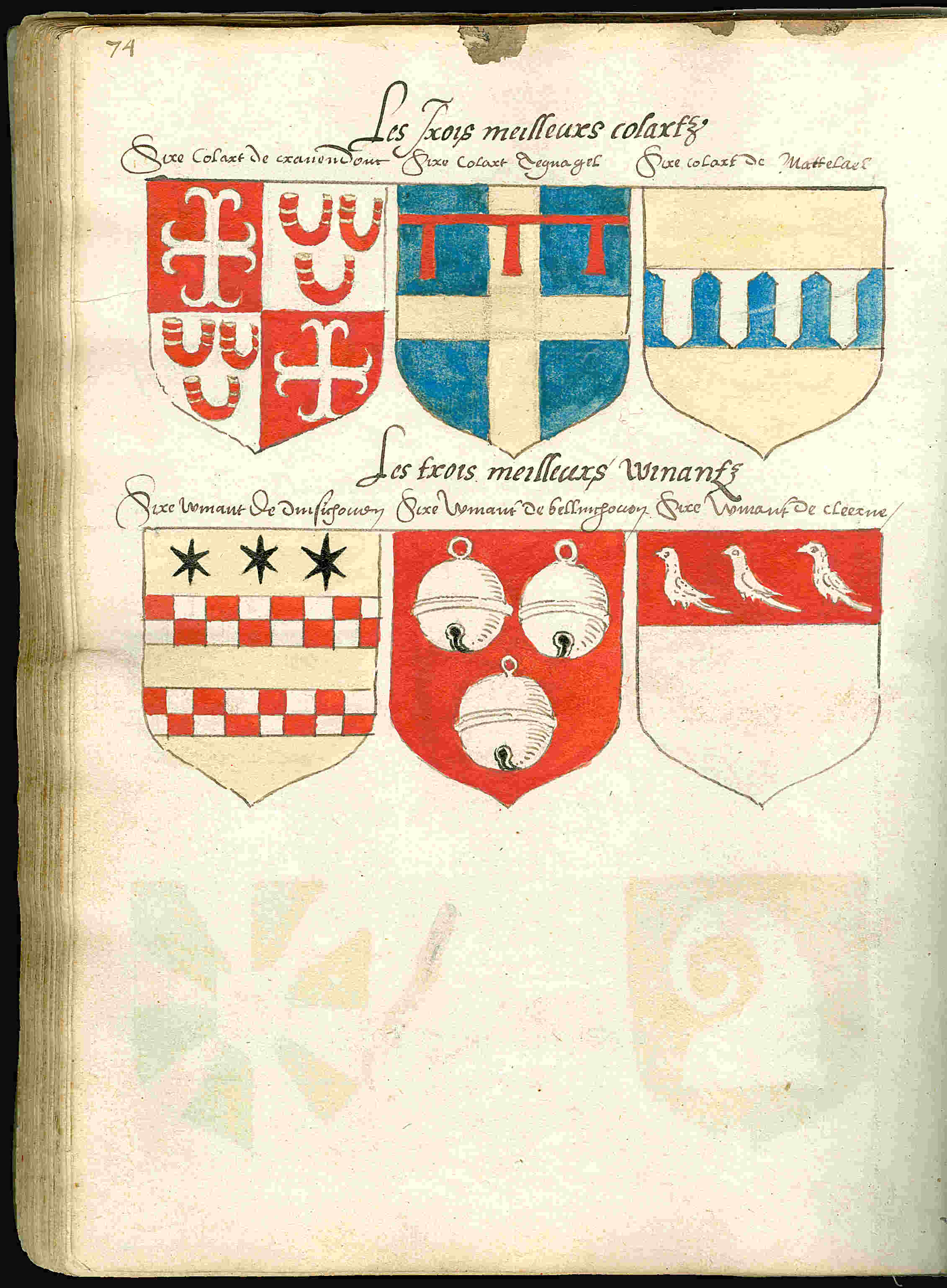 Page 74 from a copy of the Beyeren armorial / Wapenboek Beyeren from ca. 1600. The original Beyeren armorial from 1405 can be viewed at the website of the KB